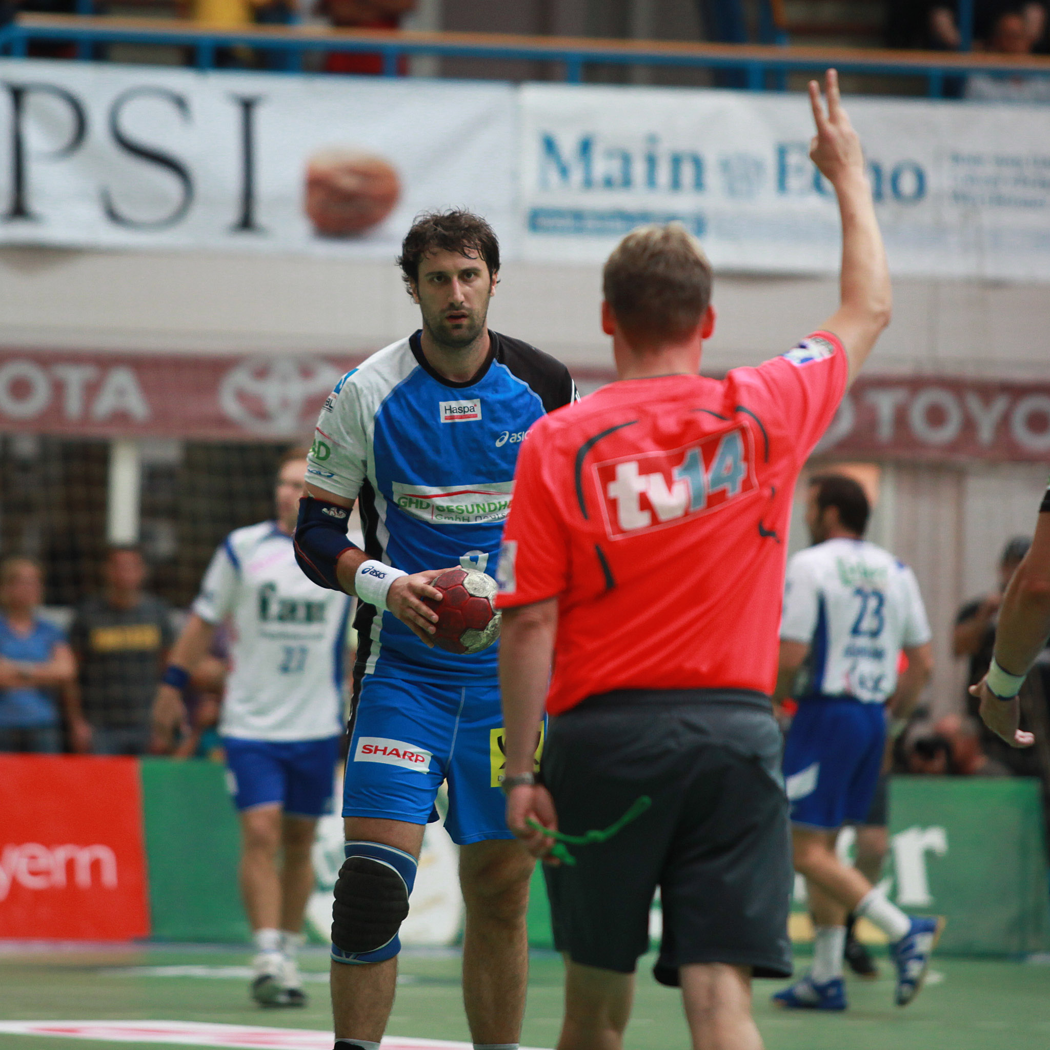 Igor Vori, Croatian handball player from HSV Hamburg, on September 6th, 2009 in the f.a.n. frankenstolz arena of Aschaffenburg, prior the bundesliga match TV Großwallstadt vers. HSV Hamburg (24:27), getting a 2 minutes suspension.